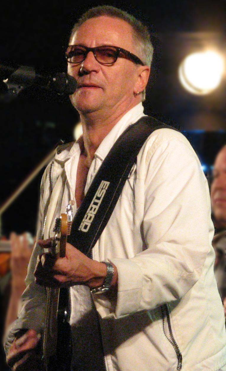 Mats Ronander at a concert with Jeremias Session Band in Örebro, Sweden.